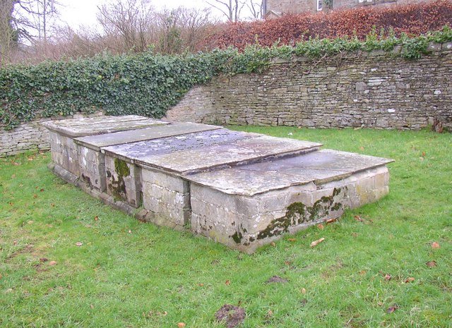 Chest tombs, Farfield Friends' Meeting House, Bolton Road (B6160), Addingham, near to Beamsley, North Yorkshire, Great Britain. Chest tombs are very unusual in Quaker burial grounds.